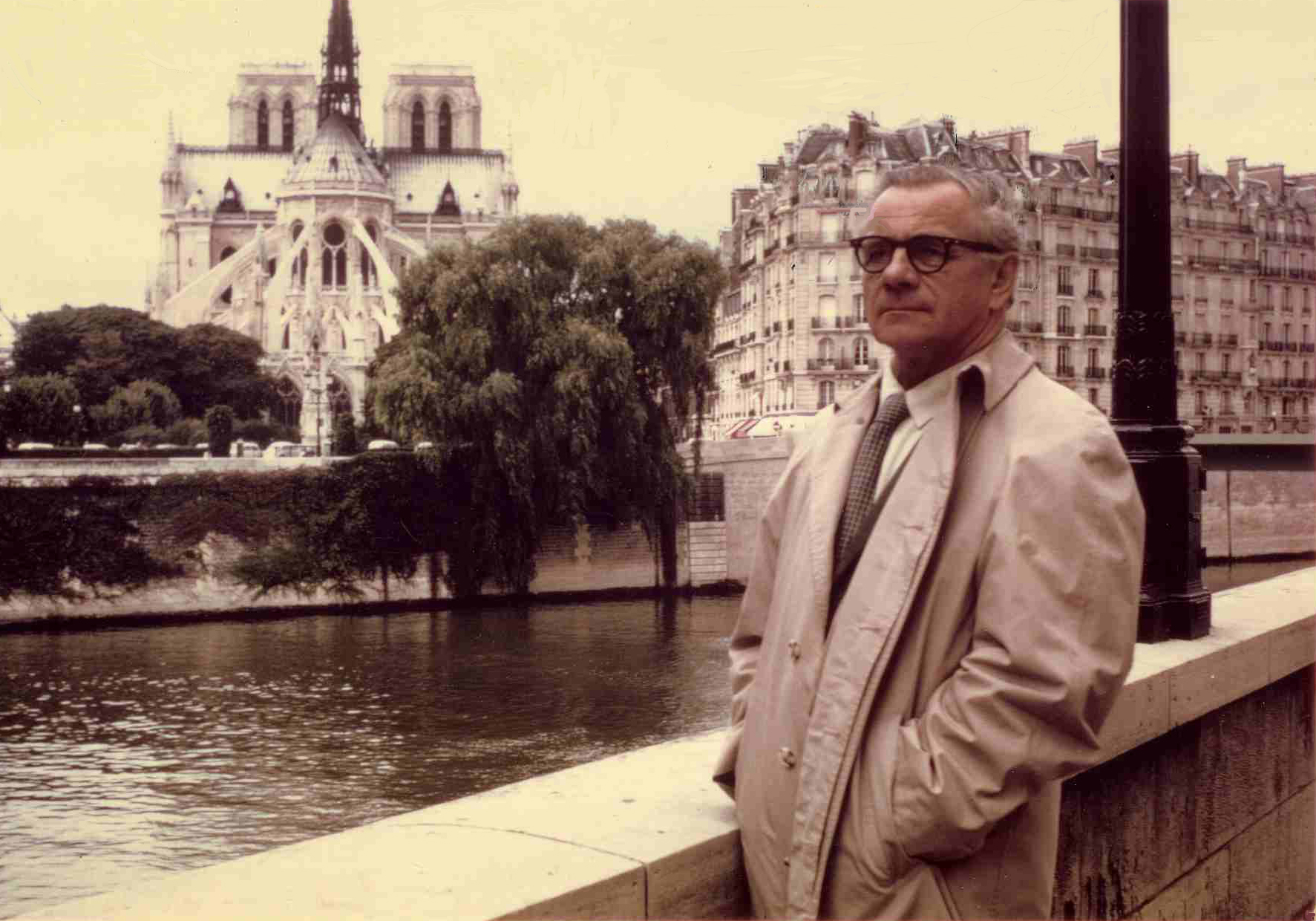 Color photograph of Janis Kalmite in Paris, with Notre Dame Cathedral in background.